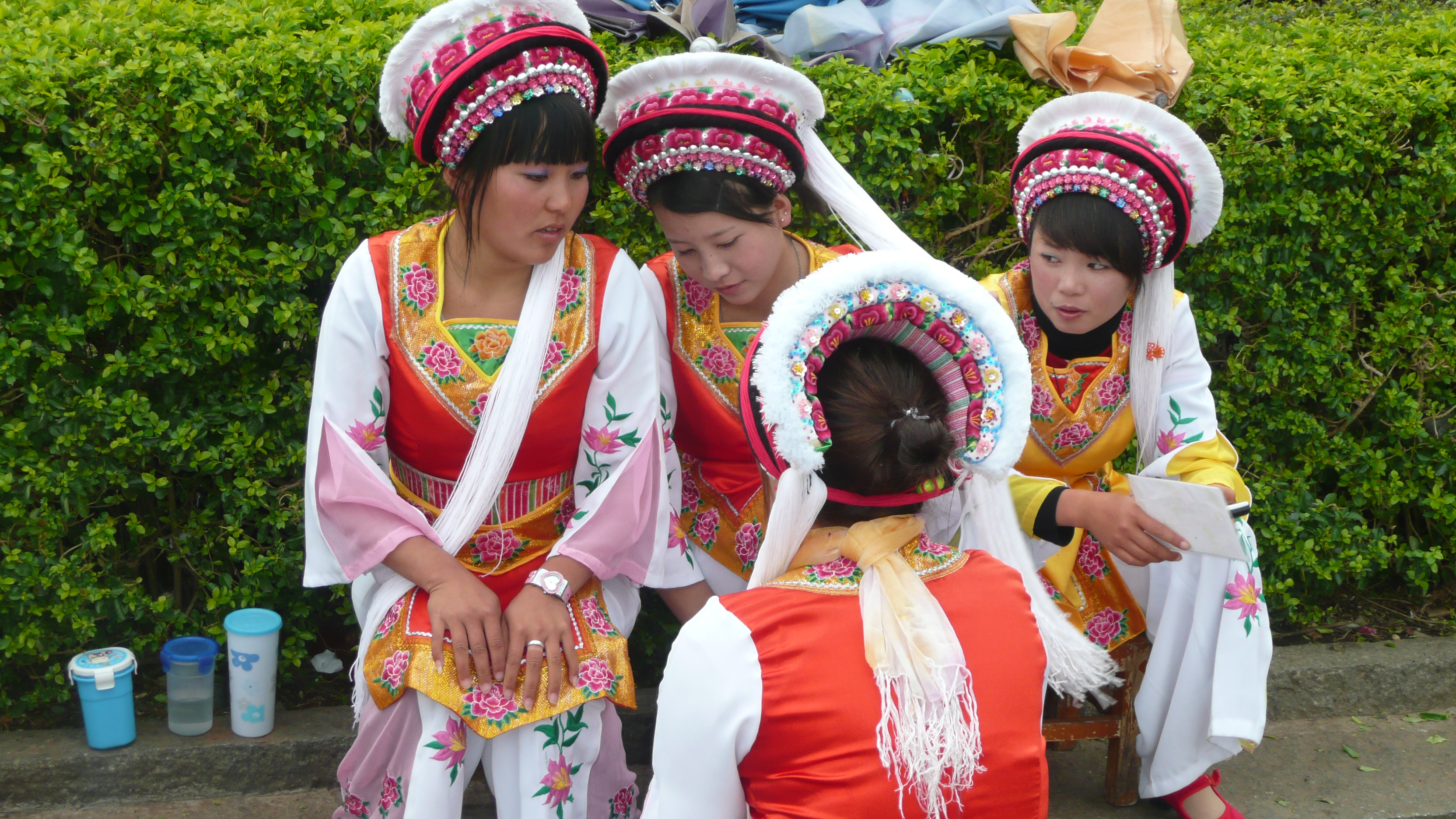 Bai minority in Dali (Yunnan)